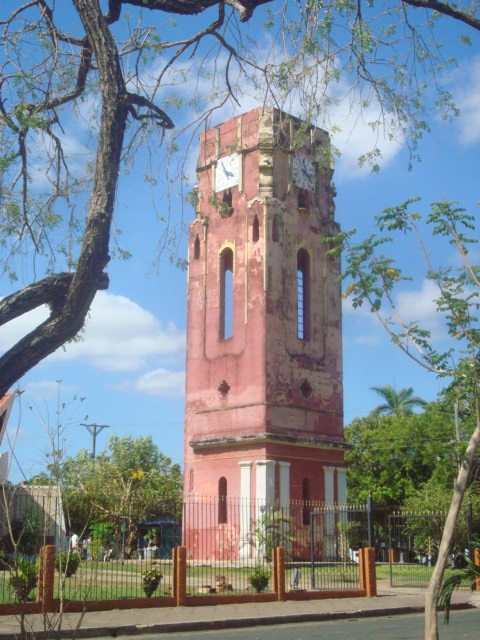 Tower of the old church in Santa Cruz (1890), Guanacaste, Costa Rica